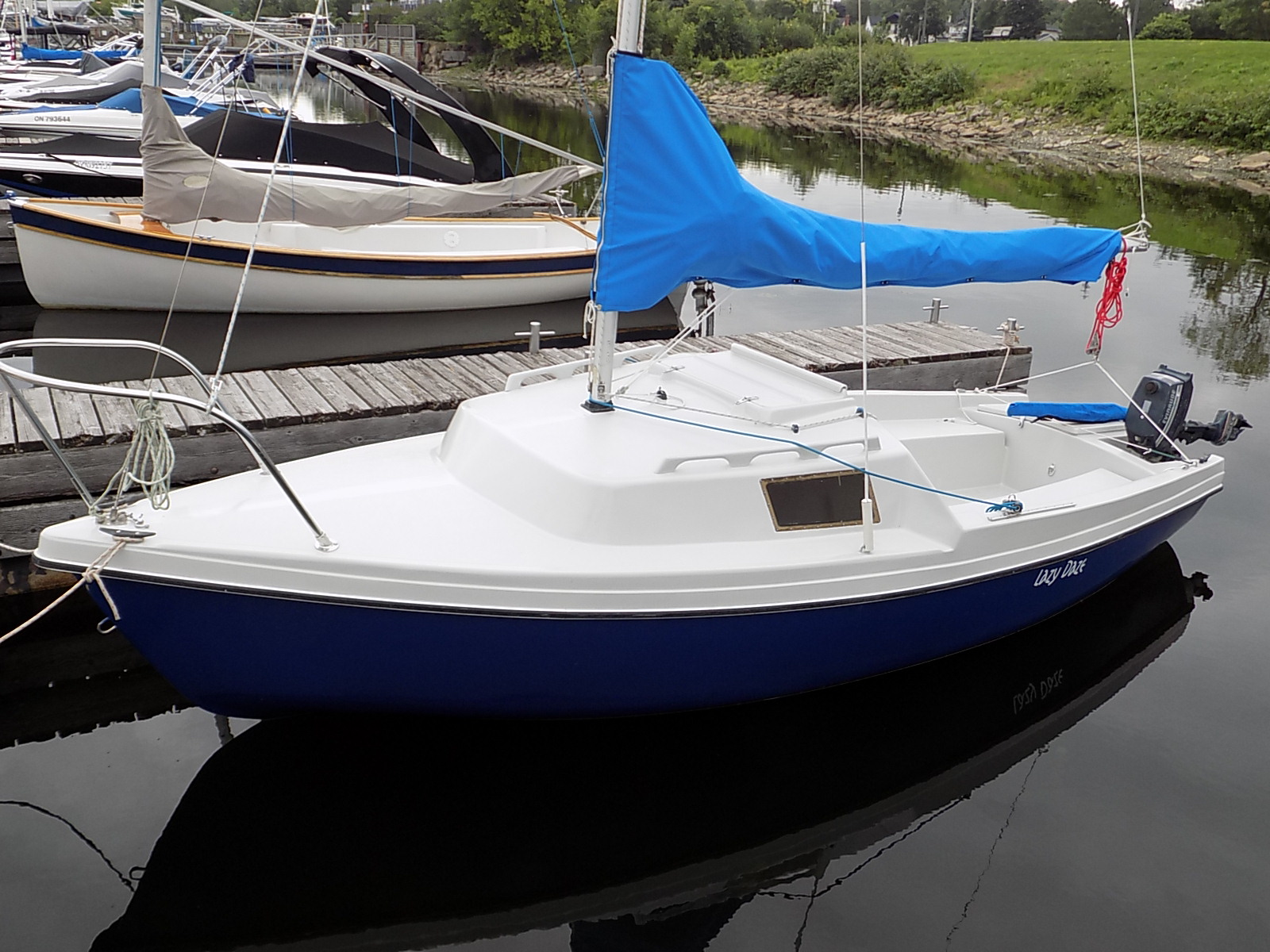 A Diller Schwill DS-16 sailboat named Lazy Daze.